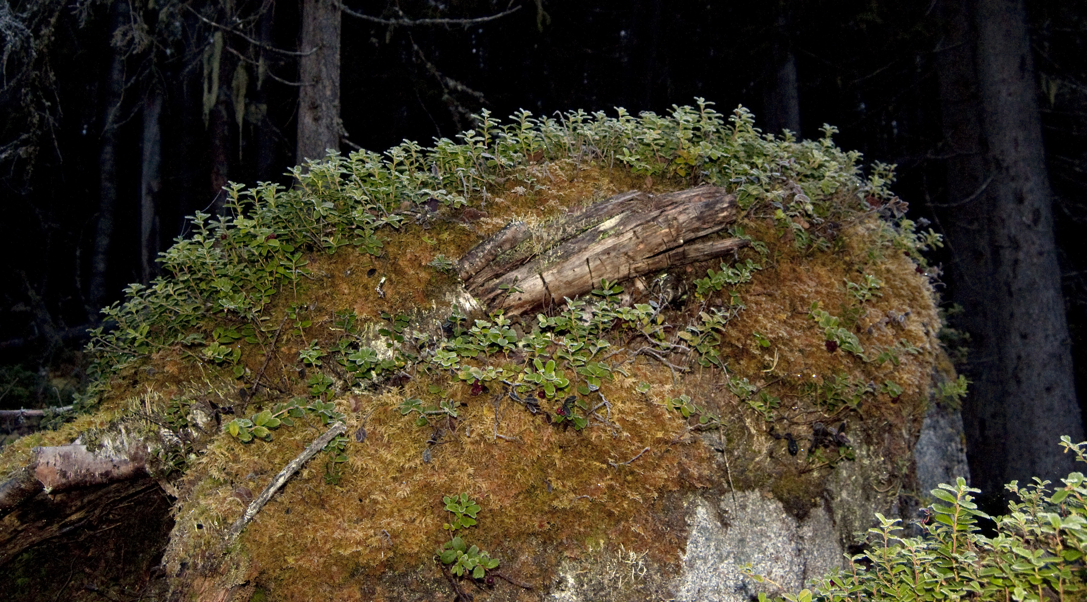 The nature reserve "Spåmansloken" in Östersund, Jämtland, Sweden.